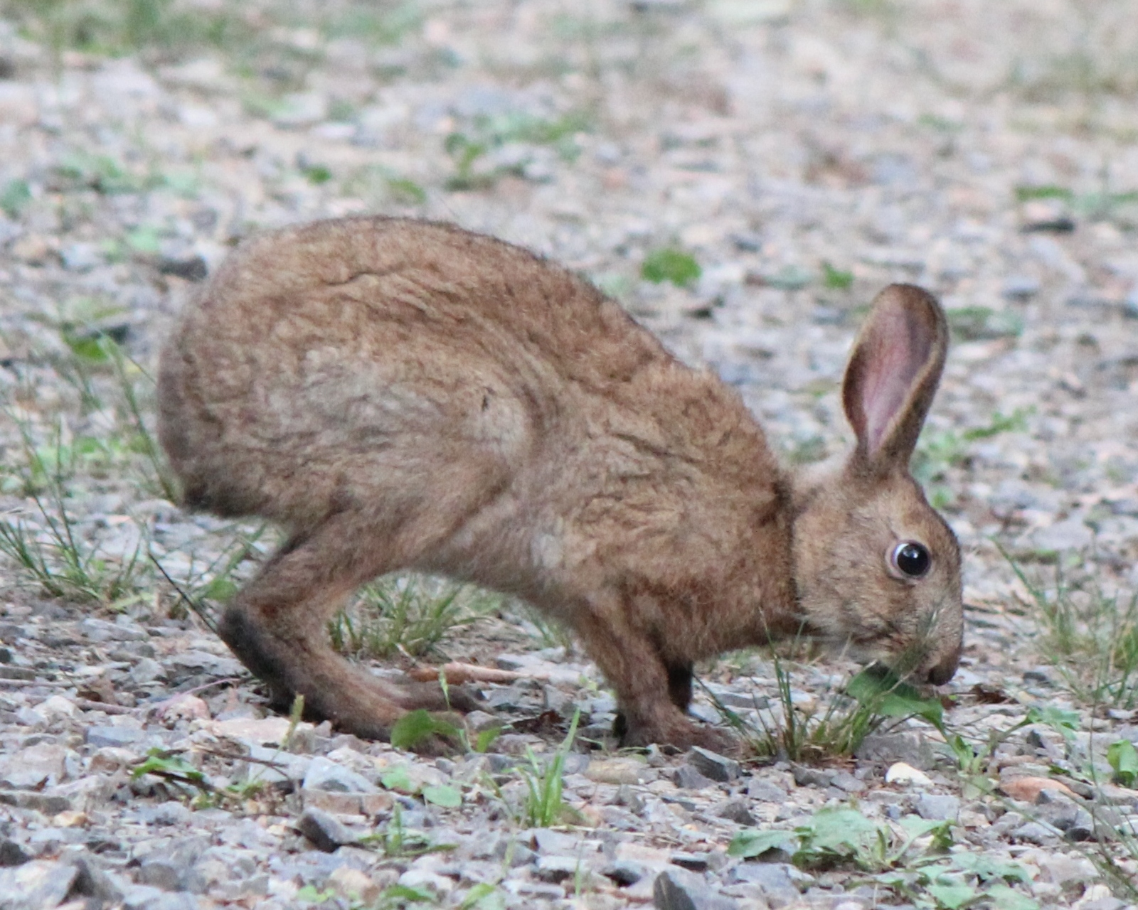 Japanese hare (Lepus brachyurus), eating grass in Japan.